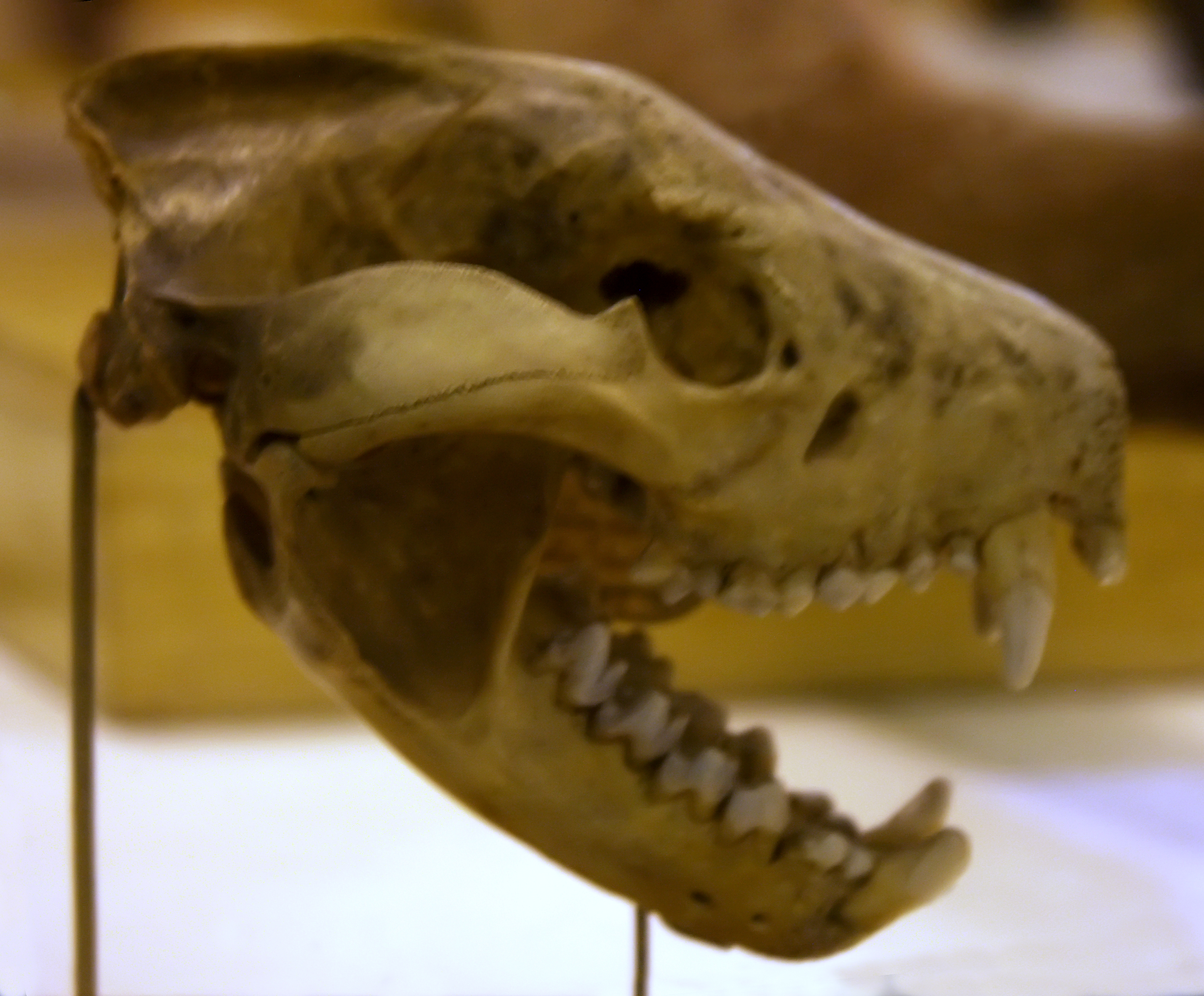 Tasmanian Devil skull in The Museum of Zoology, St. Petersburg